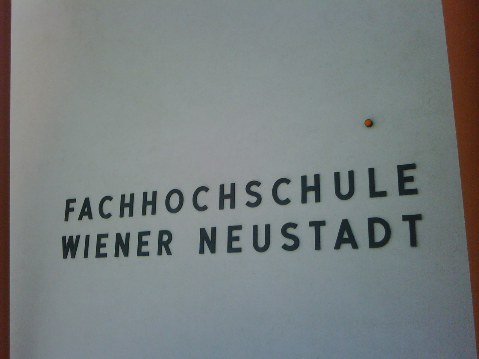 FHWN sign